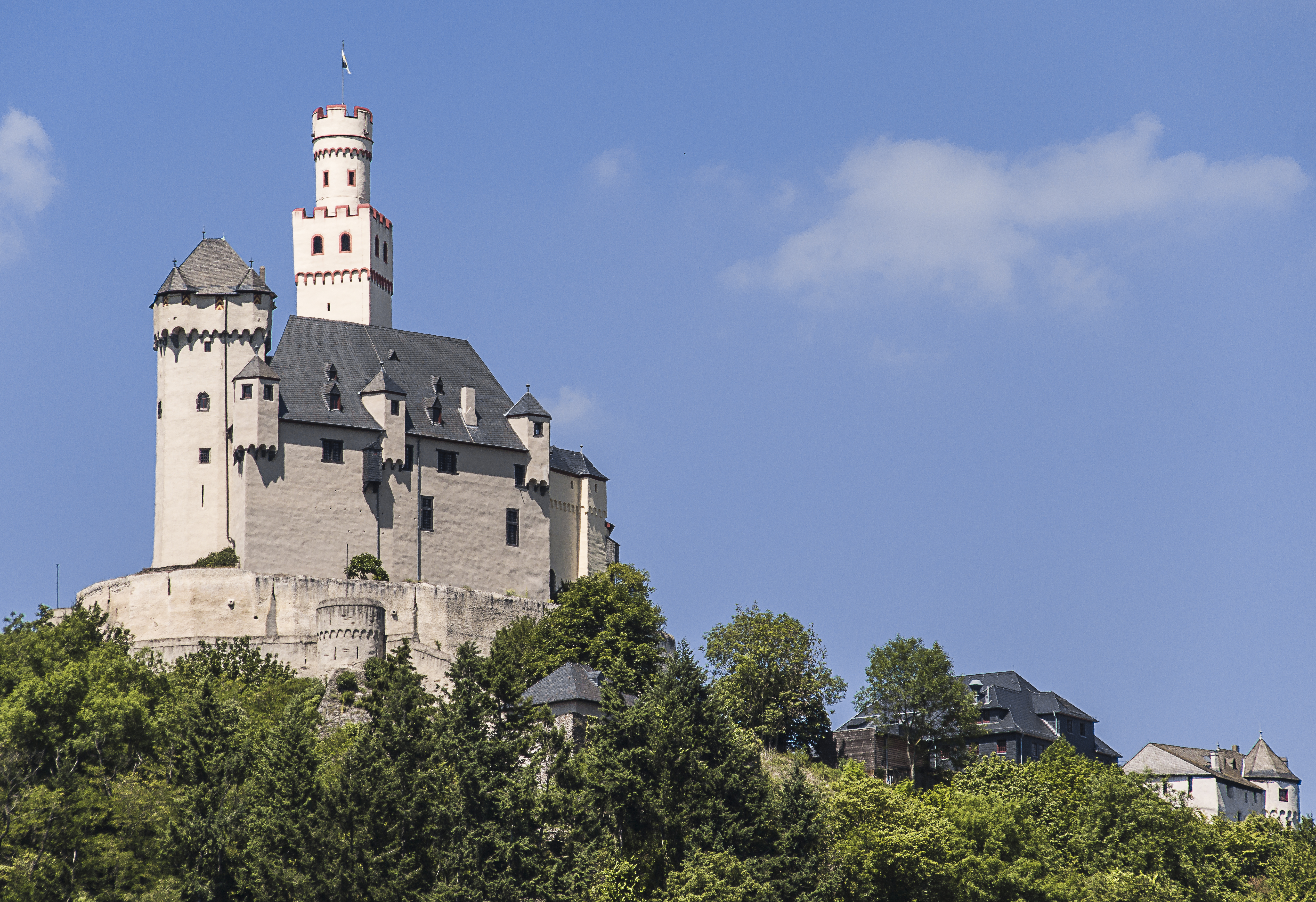 The Marksburg, maybe the most wellpreserved castle in Braubach in the Upper Middle Rhine Valley